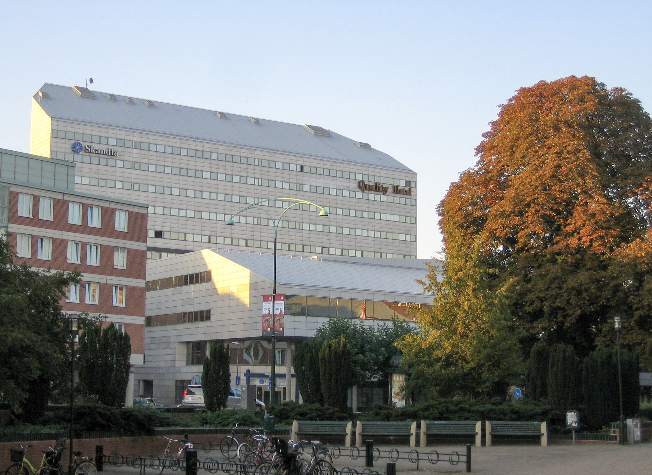 The concert house in Malmö, Sweden.